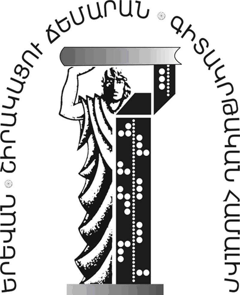 Logo of Anania Shirakatsi Lycee